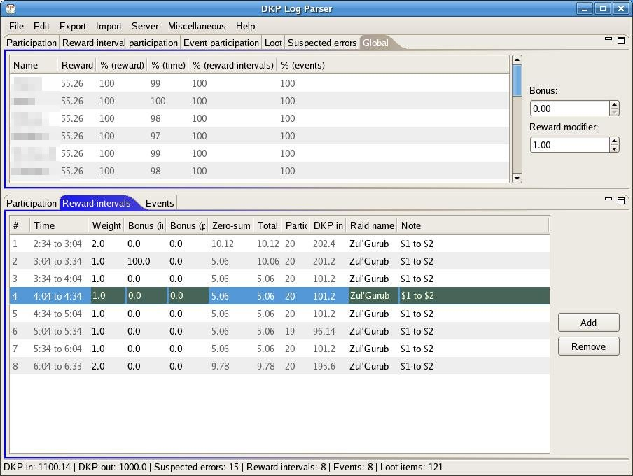 The main GUI for DKP Log Parser. Selfmade Also available at